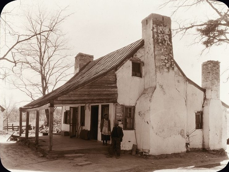 Title [Unidentified cabin, Middleburg vicinity, Loudoun County, Virginia. Porch] Summary Photo shows African American man and woman, outdoors, standing at the corner of a house near the chimney. Contributor Names Johnston, Frances Benjamin, 1864-1952, photographer Created / Published [between ca. 1930 and 1939] Subject Headings - Houses--Virginia--Loudon County--1930-1940 - Porches--Virginia--Loudon County--1930-1940 - Chimneys--Virginia--Loudon County--1930-1940 Format Headings Lantern slides--1930-1940. Notes - On slide (handwritten): "Cabin near Middleburg, Loudon." - Slide for lecturing on "Tales Old Houses Tell." - Title and date based on same image in the Carnegie Survey of the Architecture of the South, LC-J7-VA-3938, with additional information from Sam Watters, 2011. - Forms part of: Garden and historic house lecture series in the Frances Benjamin Johnston Collection (Library of Congress). - Formerly in Box 30. Medium 1 photograph : glass lantern slide, sepia-toned ; 3.25 x 4 in. Call Number/Physical Location LC-J717-X106- 38 [P&P] Repository Library of Congress Prints and Photographs Division Washington, D.C. 20540 USA Digital Id ppmsca 16608 //hdl.loc.gov/loc.pnp/ppmsca.16608 Library of Congress Control Number 2008675908 Reproduction Number LC-DIG-ppmsca-16608 (digital file from original item) Rights Advisory No known restrictions on publication. Online Format image Description 1 photograph : glass lantern slide, sepia-toned ; 3.25 x 4 in. | Photo shows African American man and woman, outdoors, standing at the corner of a house near the chimney. LCCN Permalink